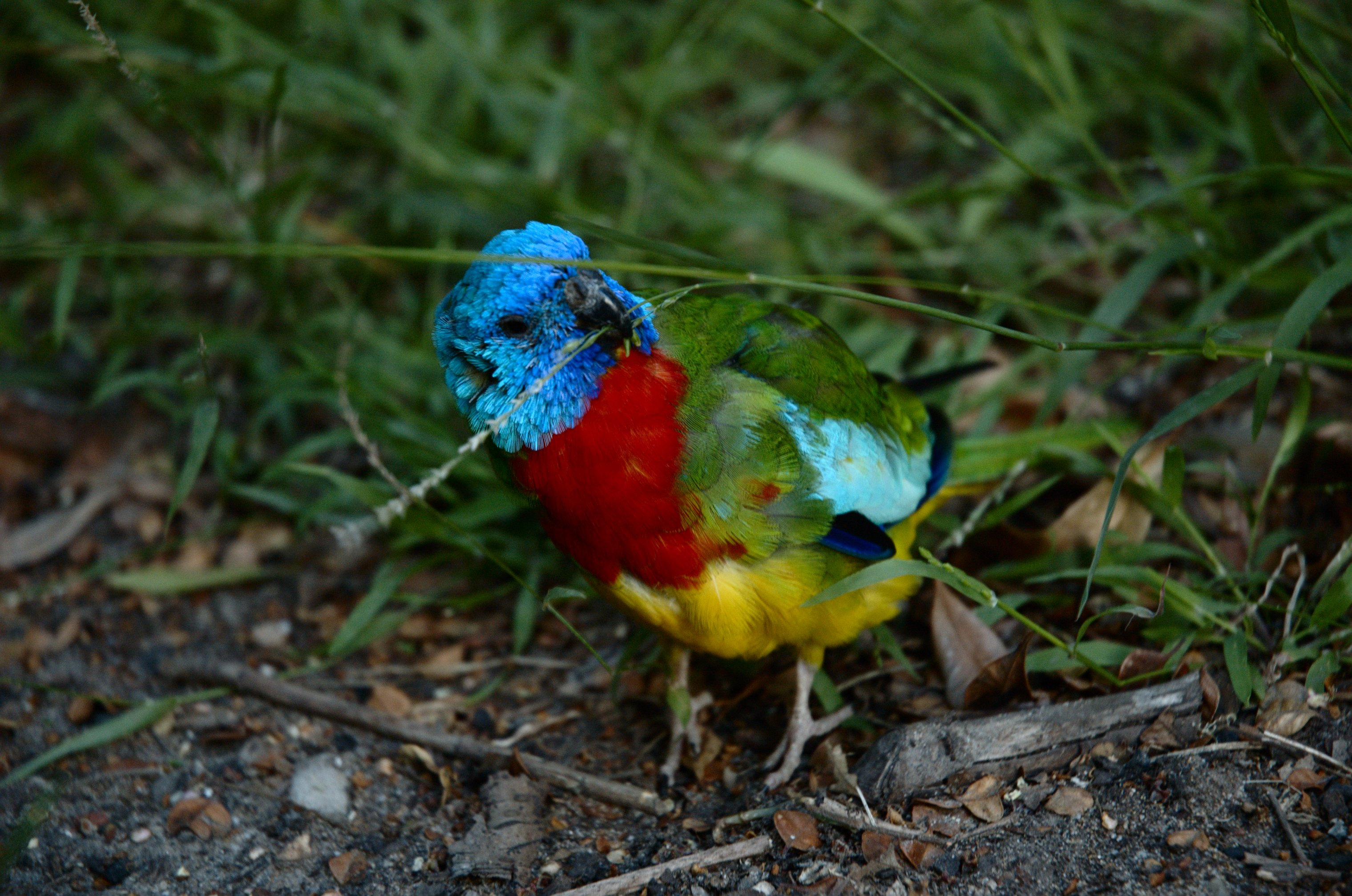 A Scarlet-chested Parrot eating grass seeds in Melbourne, Victoria, AU. Melbourne is outside the normal range of this bird, so its suspected that this is an escaped aviary bird.